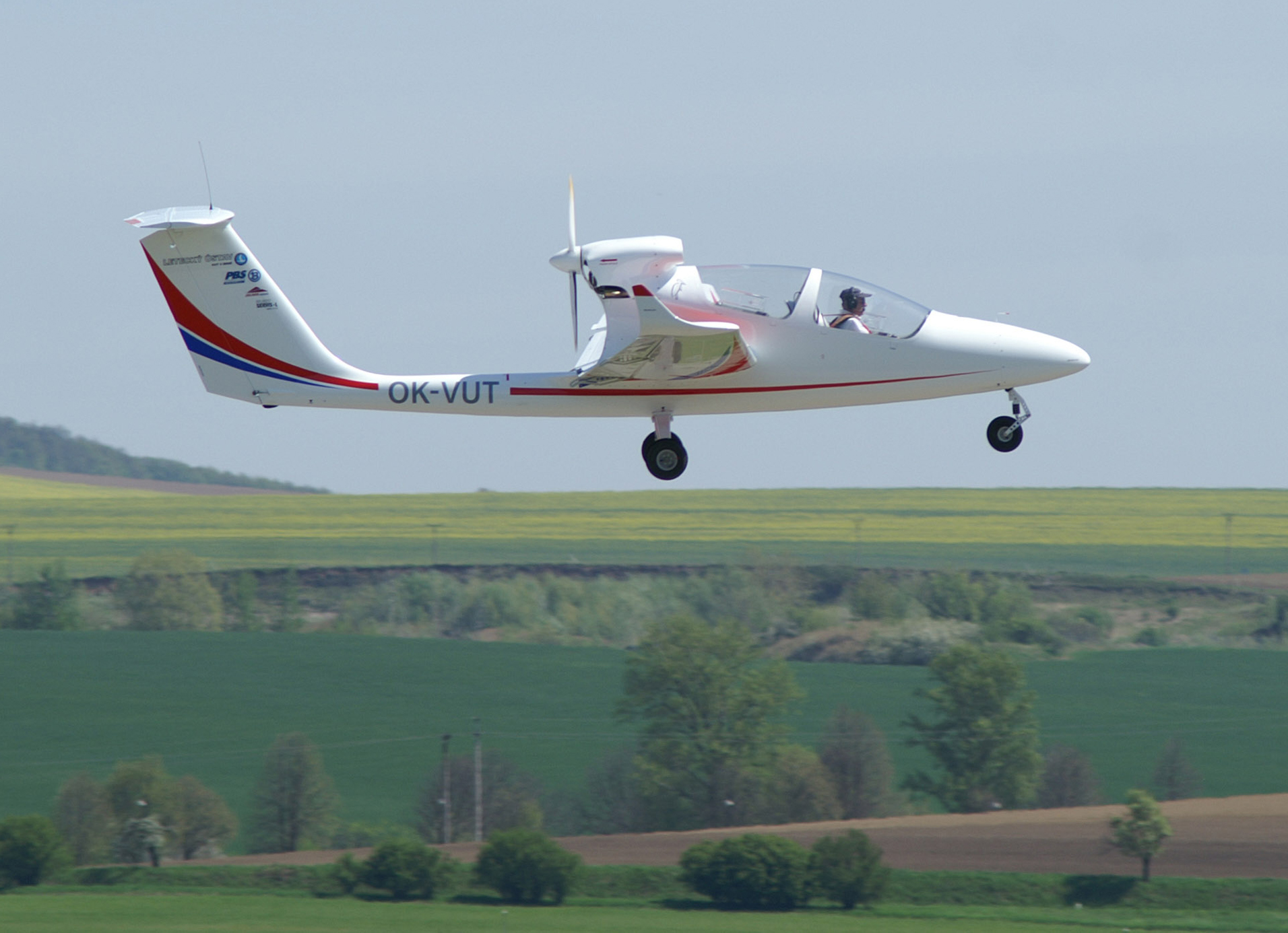 MARABU, an experimental plane